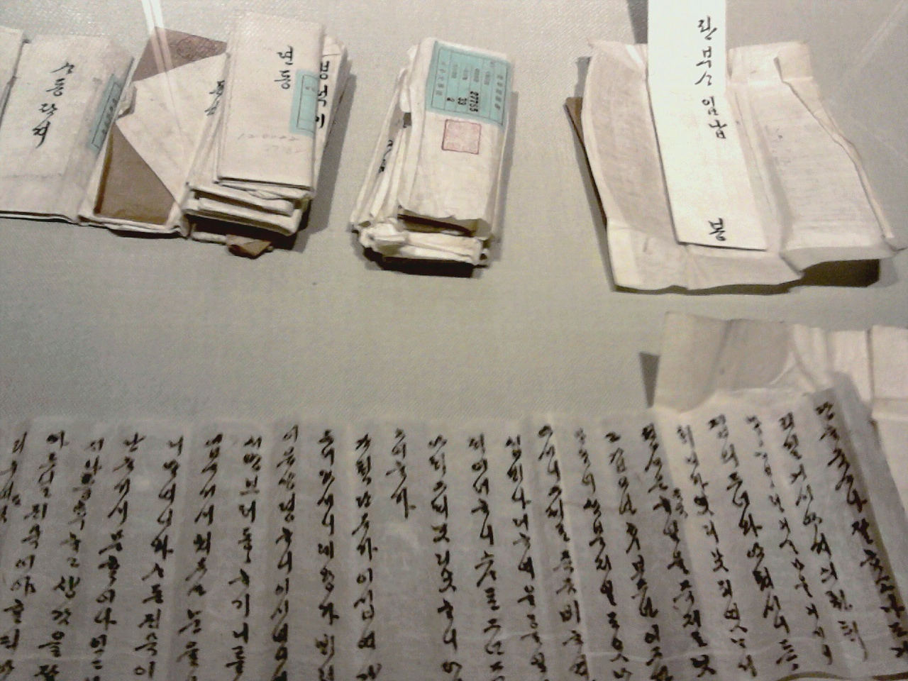 Sunwonwanghu Eopilbongseo displayed in Seoul National University Kyujanggak Institute for Koreanology Studies